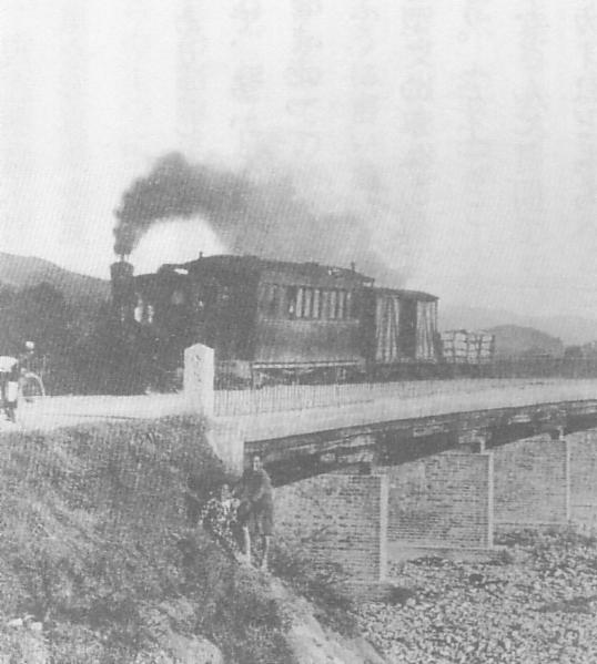 Train of Asakura Tramway.